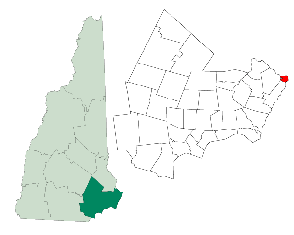 Map of a municipality in Rockingham County, New Hampshire